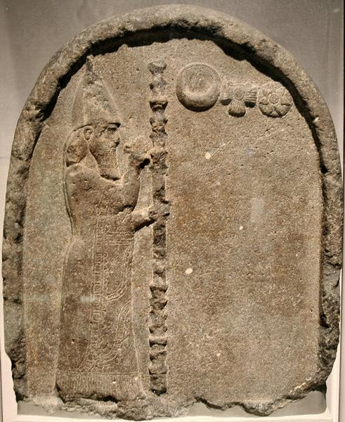 Nabonidus, king of Babylonia; slab in the British Museum